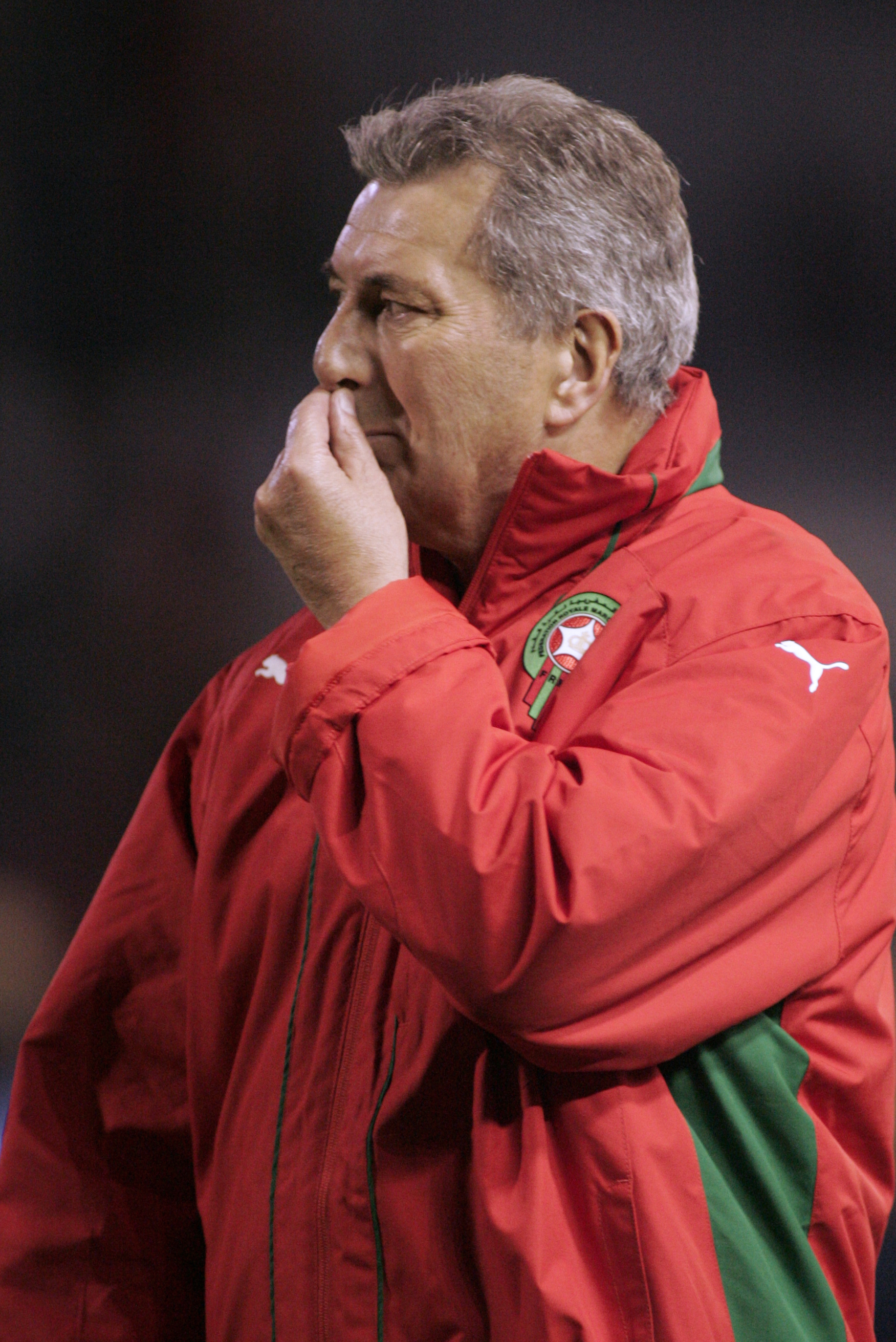 Roger Lemerre, head coach of Morocco football national team during a match agains Gabon on March 28, 2009. Gabon won the match with 2-1.